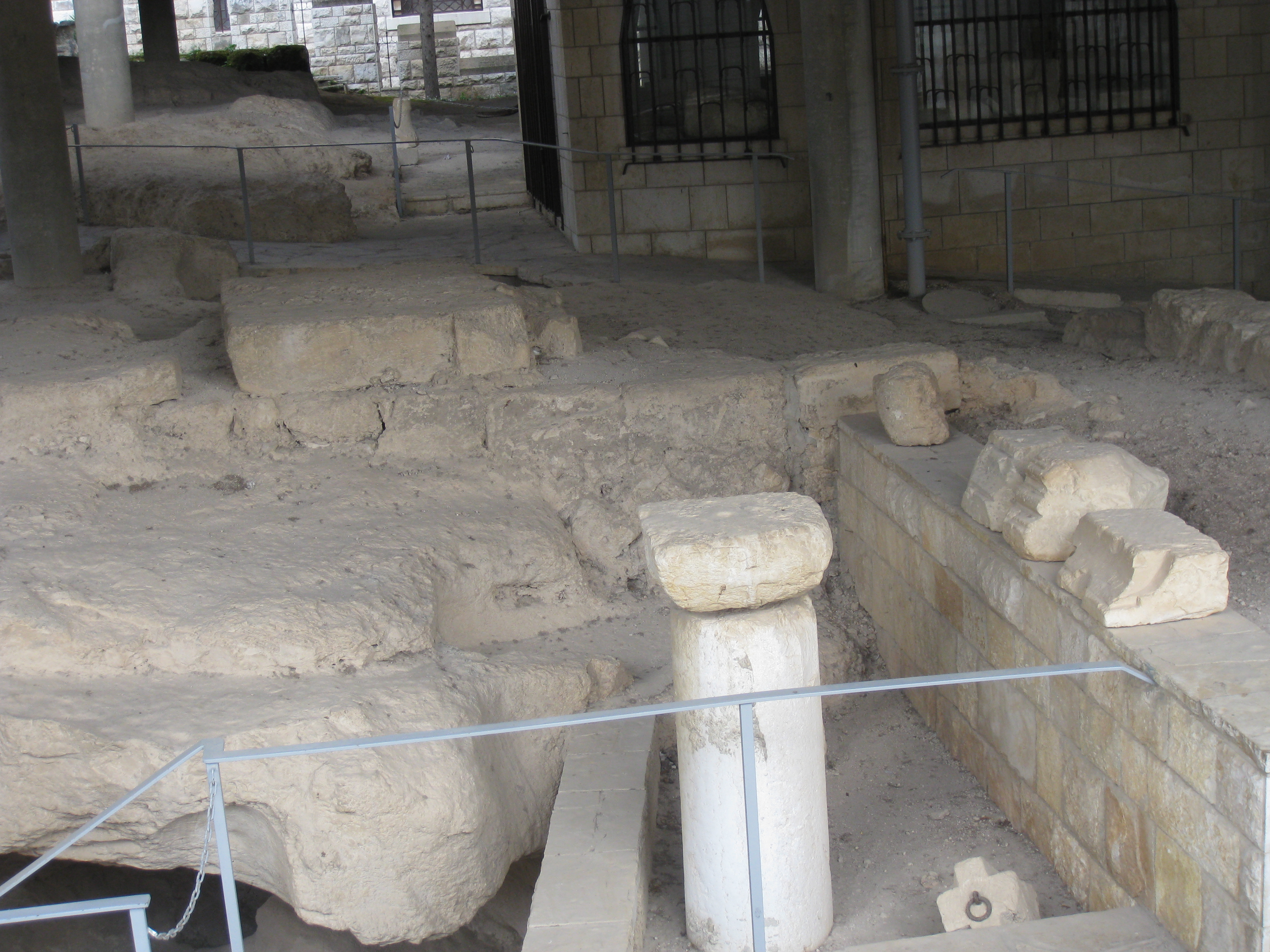 The Church of the Annunciation כנסיית הבשורה בנצרת